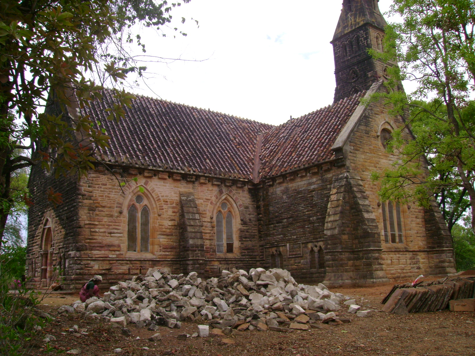 This Catholic Church in Pachmarhi ( Madhya Pradesh, India), was built around 1857 and is a classic example of colonial era. It is a blend of Irish and French architecture. The beautiful Belgium stain glass windows are a surprisingly well maintained. The church also has graves that date back to 1859.